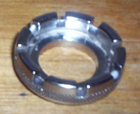 bicycle tool